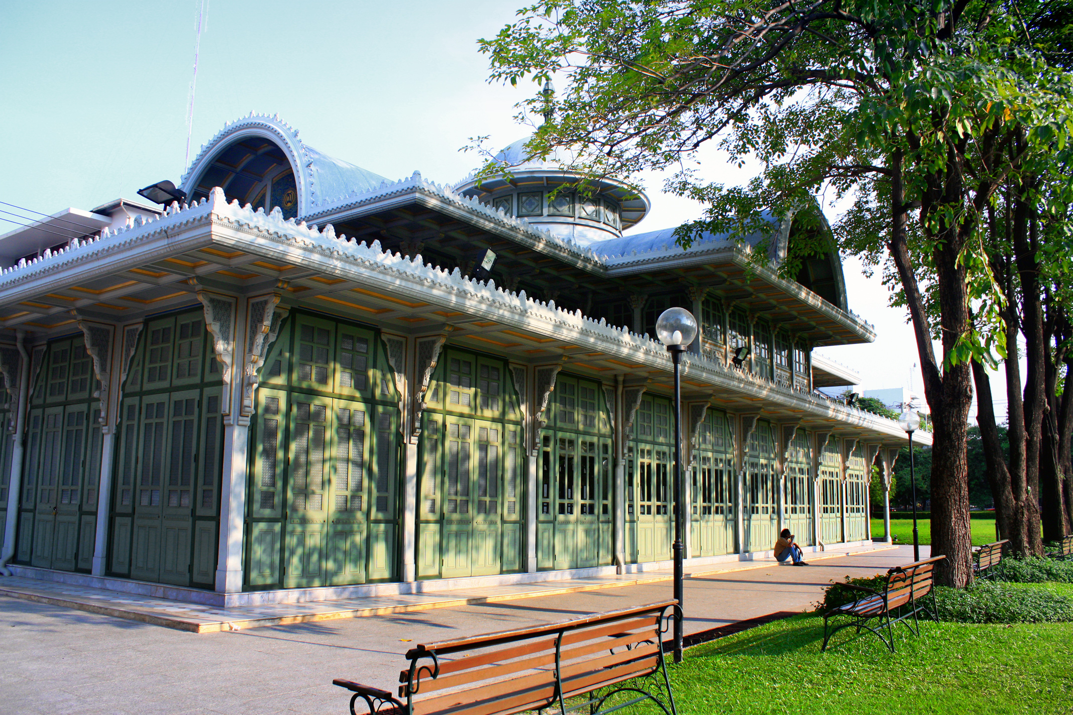 Phayathai Palace, Ratchathewi district, Bangkok Thailand